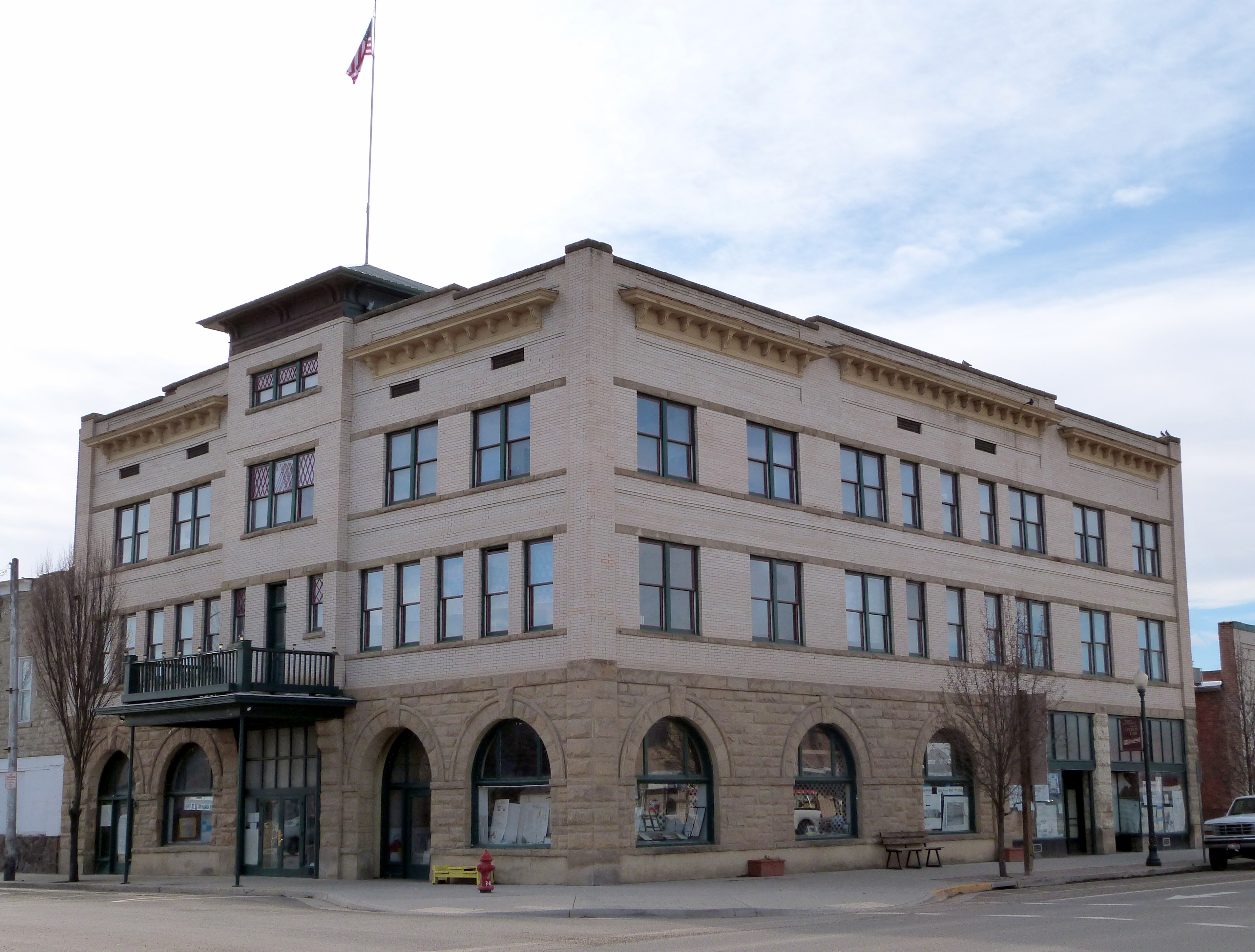 The historic Vale Hotel and Grand Opera House (built 1908), located at 123 Main Street South in Vale, Oregon, United States, is listed on the US National Register of Historic Places.